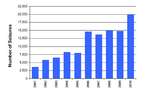 Chart of counterfeit goods seized in the U.S. in 2010